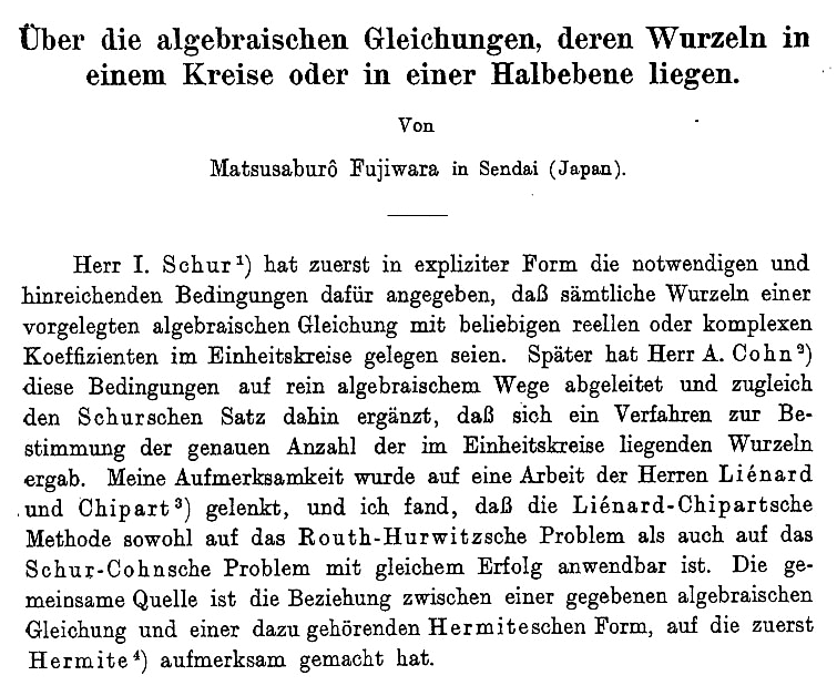 Scan of (part of) first page of M. Fujiwara's article in Math. Zeitschrift 24 (1926)